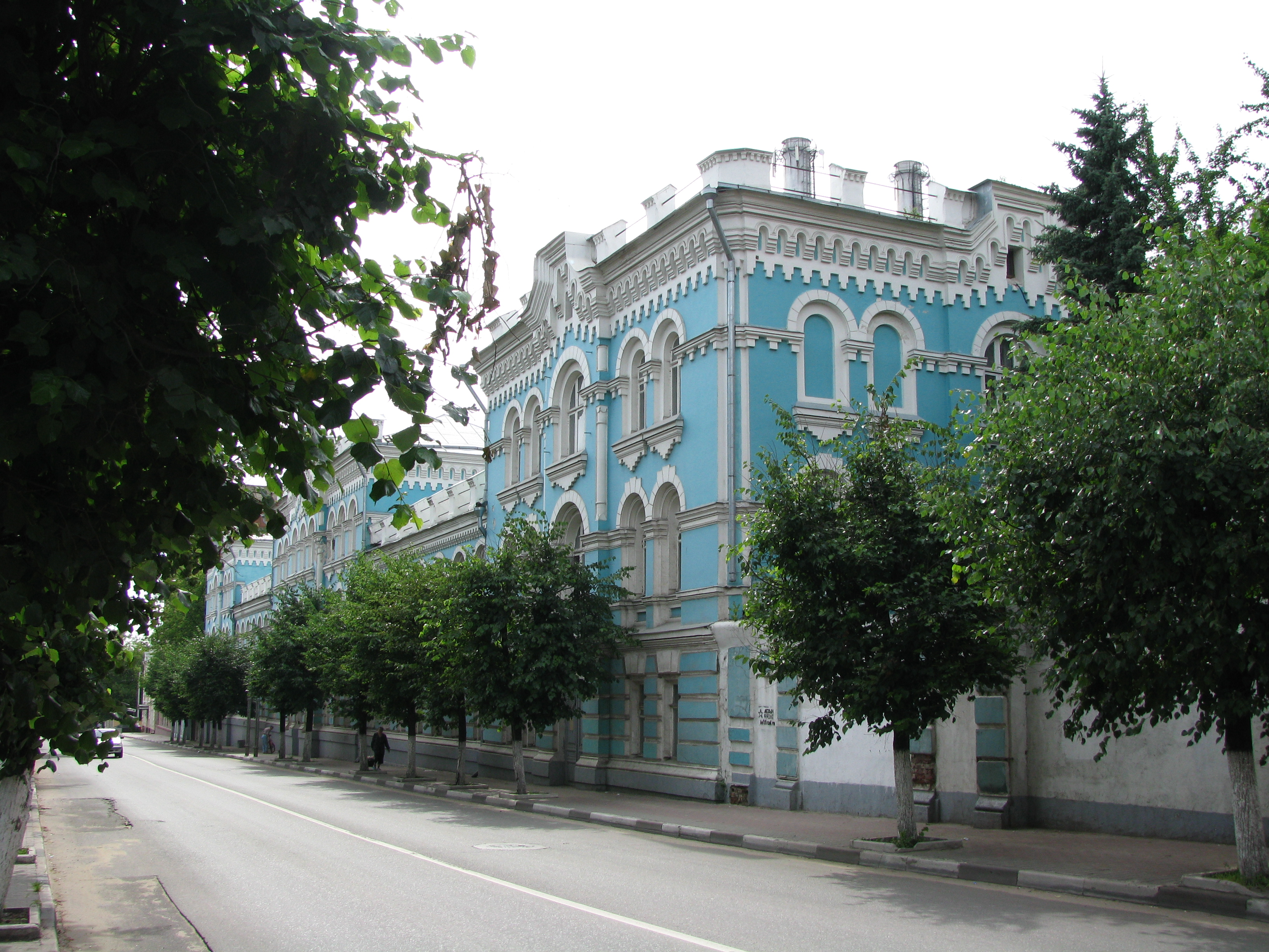 Former Serpukhov Town council. Local landmark.